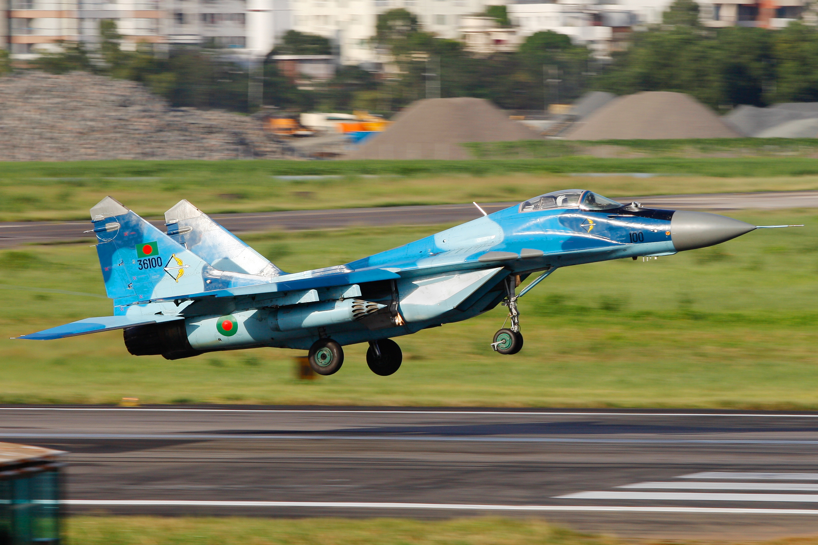 36100 Bangladesh Air Force MIG-29 Smokey Landing at Hazrat Shahjalal International Airport Dhaka VGHS / DAC